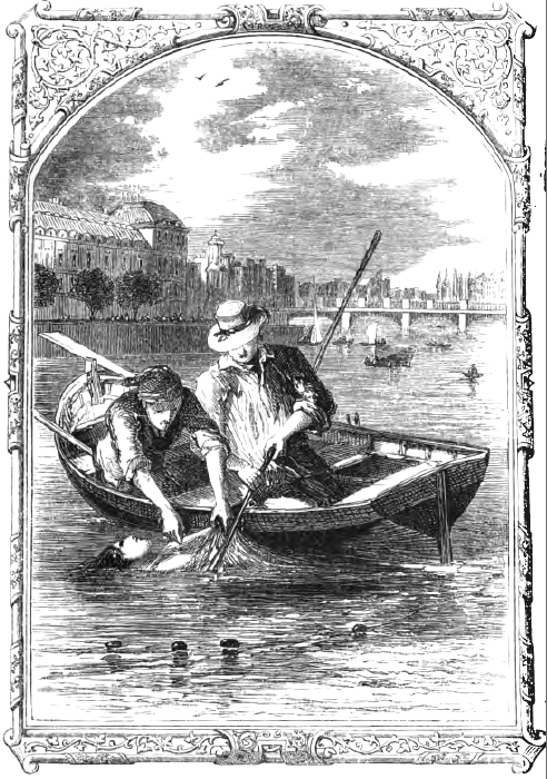 Illustration of the short story "The Mystery of Marie Roget" by American author Edgar Allan Poe. From Tales of Mystery, Imagination, & Humour: And Poems By Edgar Allan Poe. Published by Printed and published by Henry Vizetelly, 1852. Scanned from original at Oxford University.